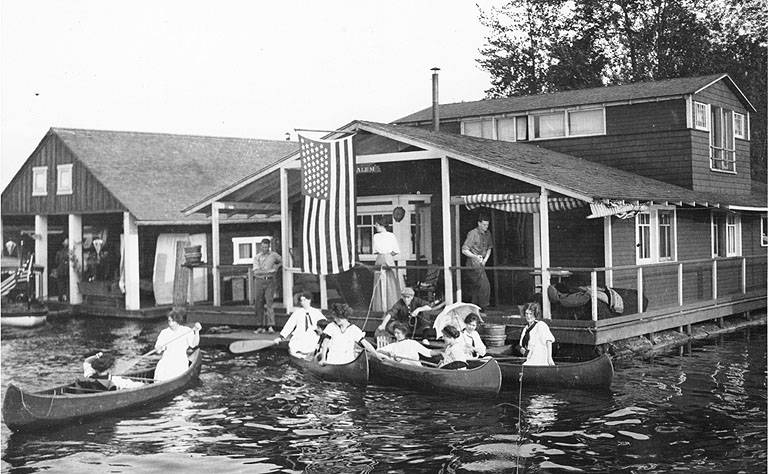 Shows a group of men and women canoeing. Subjects (LCTGM): Houseboats--Washington (State)--Seattle; Canoes--Washington (State)--Seattle; Women--Washington (State)--Seattle; Men--Washington (State)--Seattle Subjects (LCSH): Washington, Lake (Wash.)